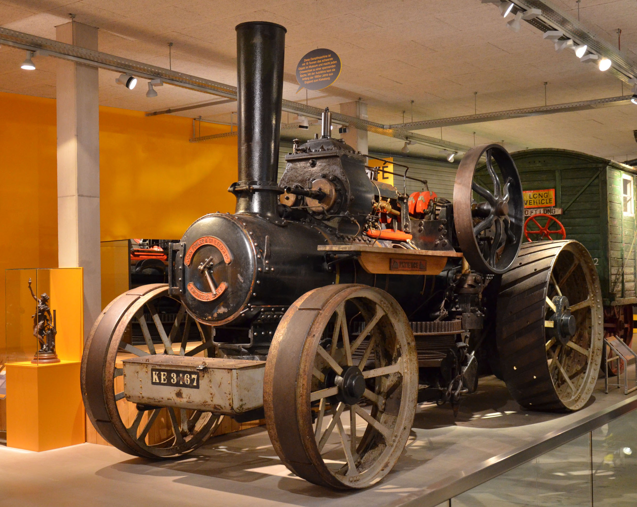 The Fowler steam locomotive is the biggest object in the agricultural exhibition of the Agrarium in the open air museum at the Kiekeberg